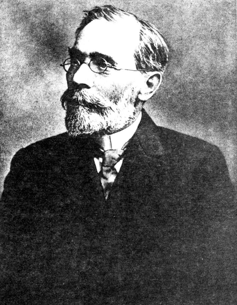 Simonas Rozenbaumas, member of Constituent Assembly of Lithuania and Lithuanian Seimas, lawyer, diplomat